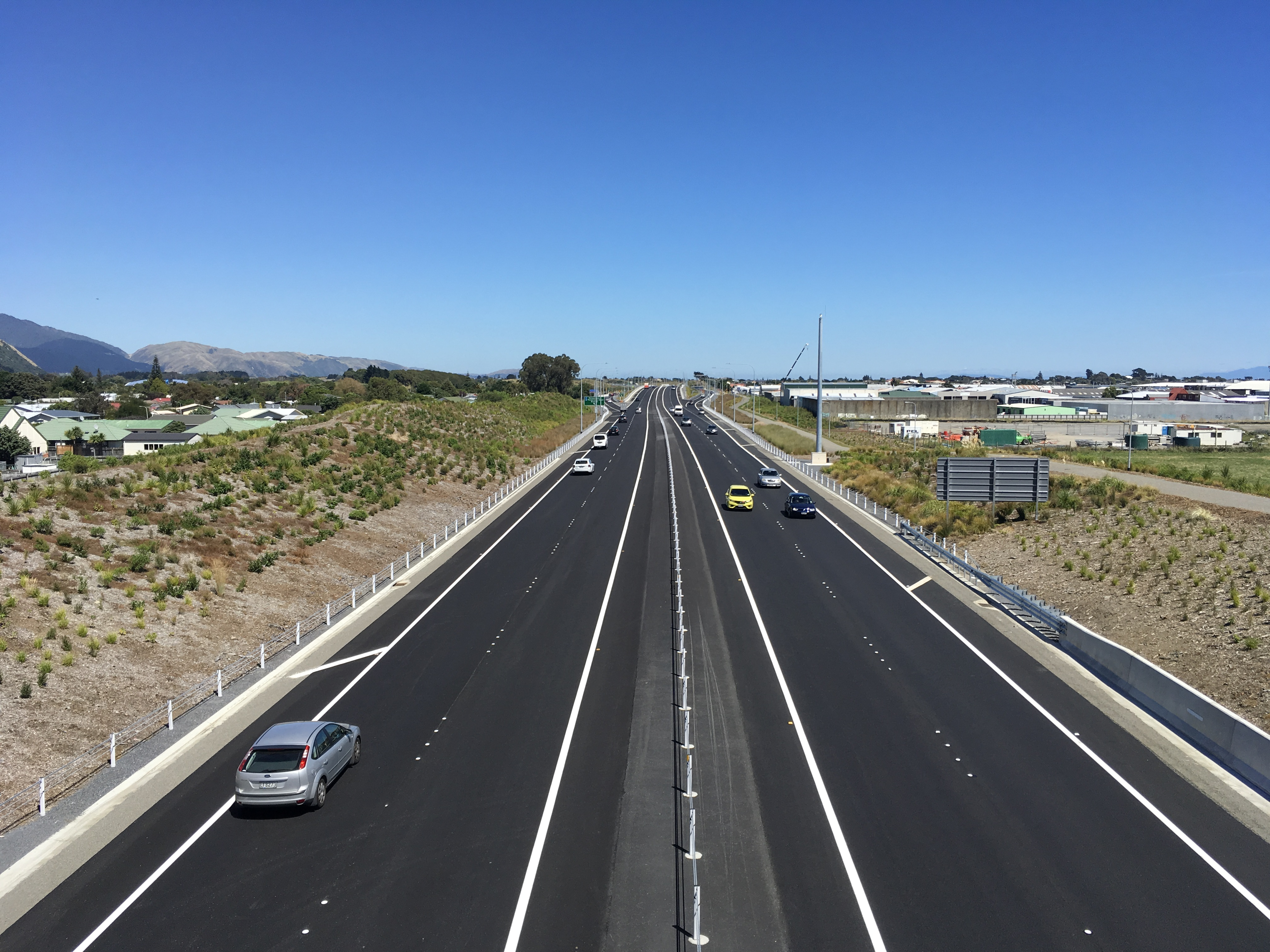 Kapiti Expressway 2017 Looking south from over bridge IMG3637